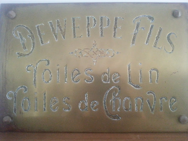 plaque de l'usine